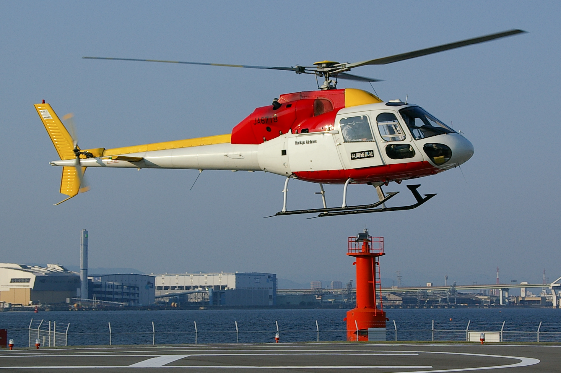 Photograph of taking off of Hankyu Airlines' Eurocopter AS355F2 (JA6718), chartered by Kyodo News for news gathering, taken at Maishima Heliport in Konohana-ku, Osaka, Osaka Prefecture, Japan.